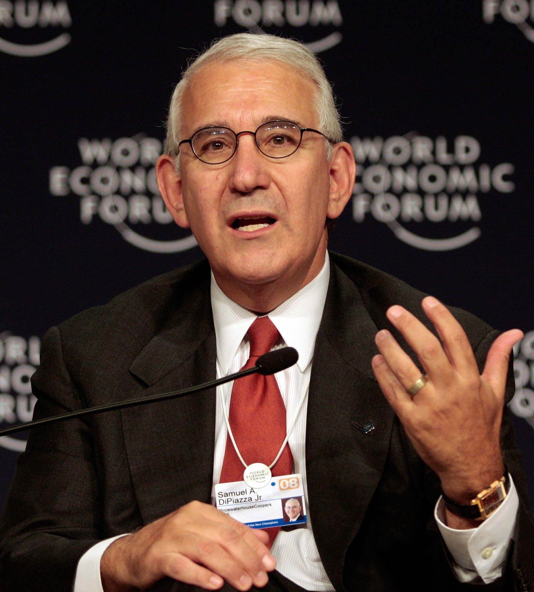 Samuel A. DiPiazza Jr, Chief Executive Officer of PricewaterhouseCoopers International, speaks during a press conference in Tianjin, China 26 September 2008.